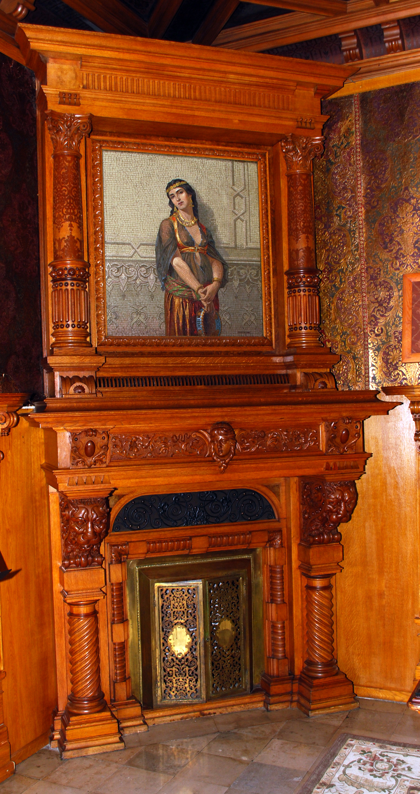 This picture was taken during the photographic wikiworkshop organized by the Association of Wikimedia Poland. All pictures of the workshop you can see in the category wikiwarsztaty 2010. Atrapa pieca udająca kominek w Pałacu Sheiblera